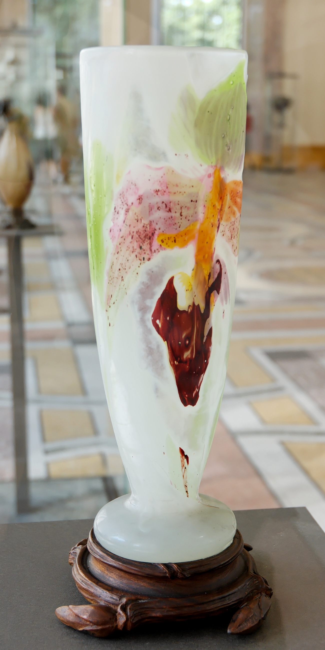 Vase with orchid, inscripted with a quote from Belgian poet Maurice Maeterlinck. Multi-layered blown crystal and engraved glass marquetry with carved wood pedestal, 1898.